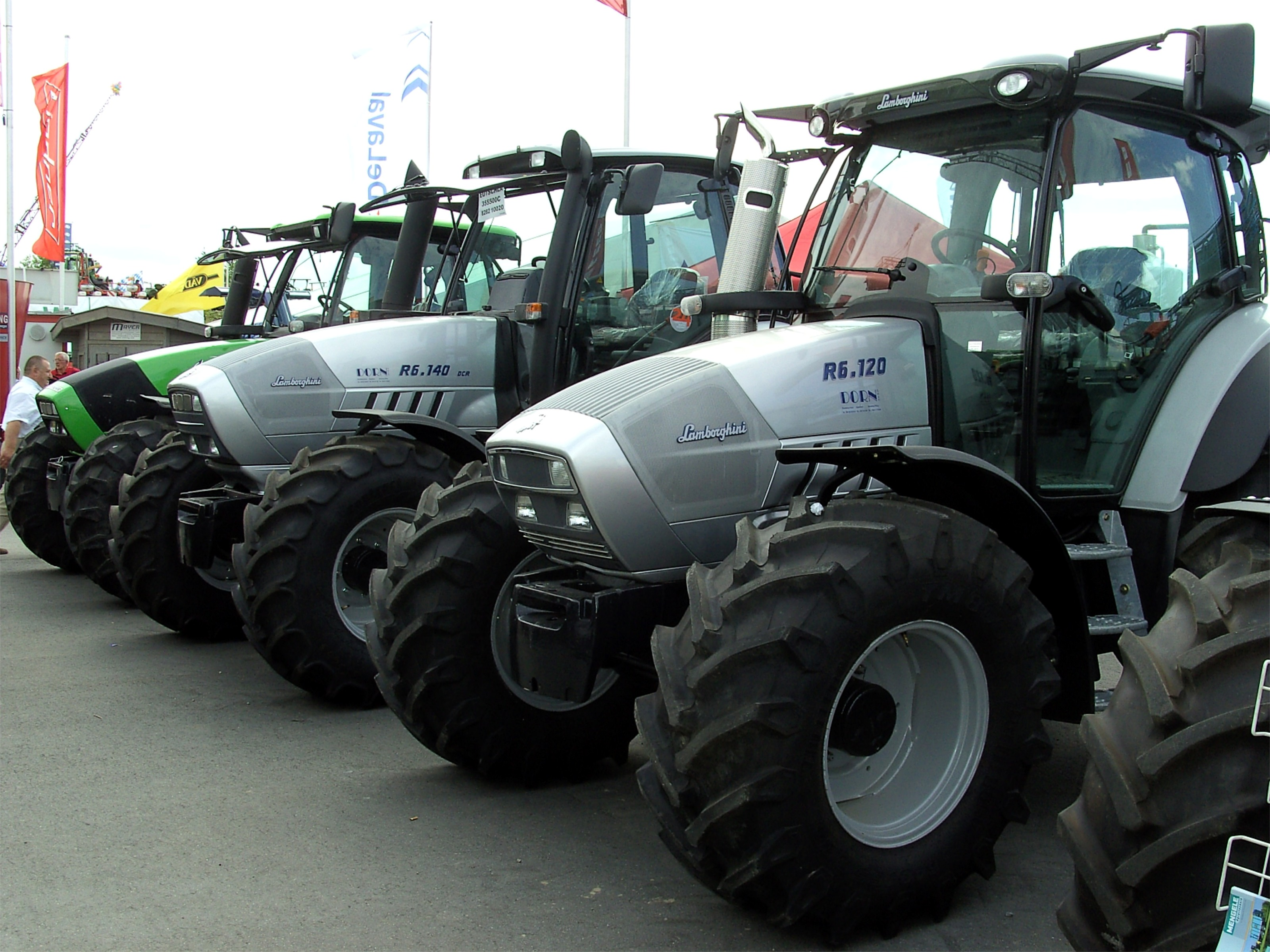 tractors of Lamborghini on an exhibition